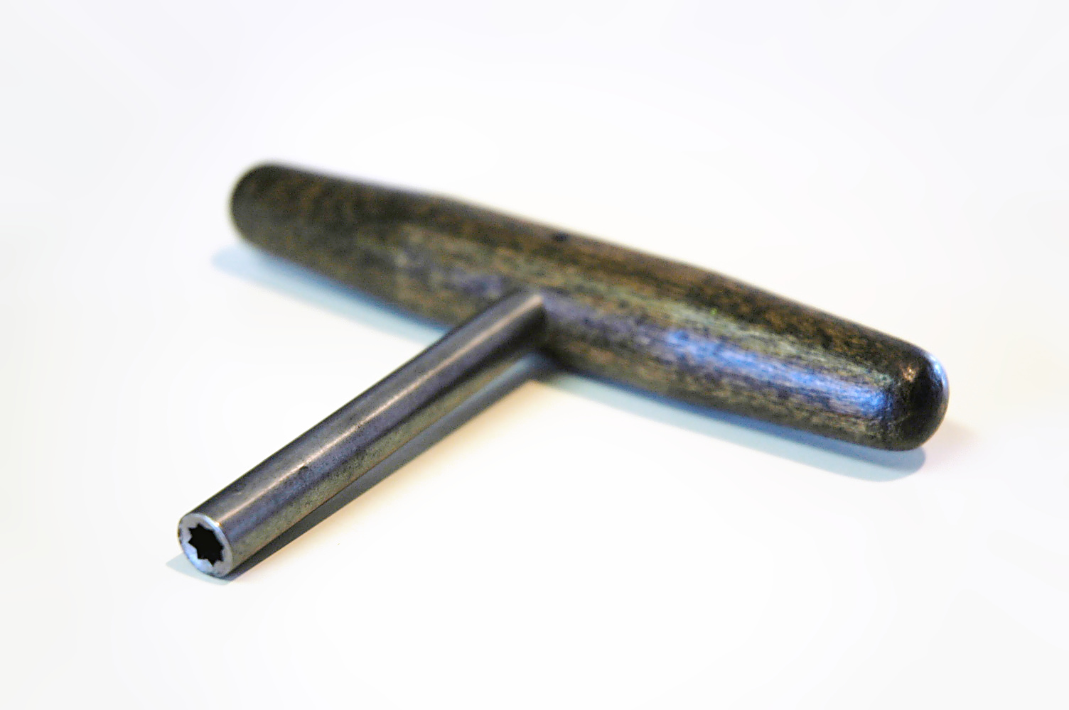 T-shaped tuning wrench. My photo. (This wrench has a smaller socket than a piano wrench and can be used for various instruments, such as harps, hammer dulcimers, autoharps, and psaltries.)